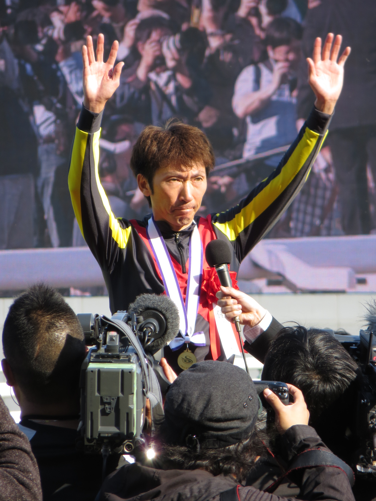 Masayoshi Ebina, Victory Ceremony from 147th Tenno Sho spring.